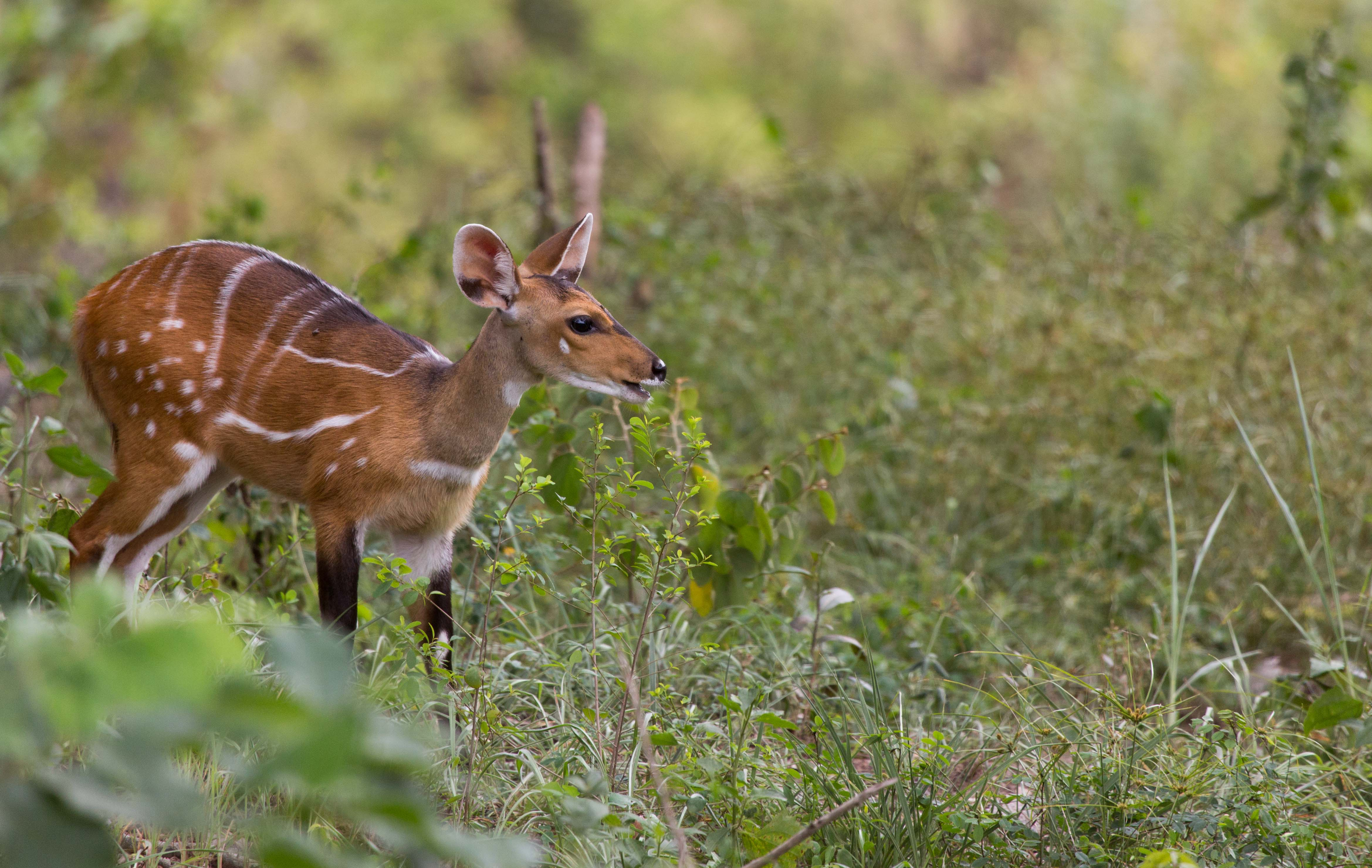 Bushbuck in the Comoe NP